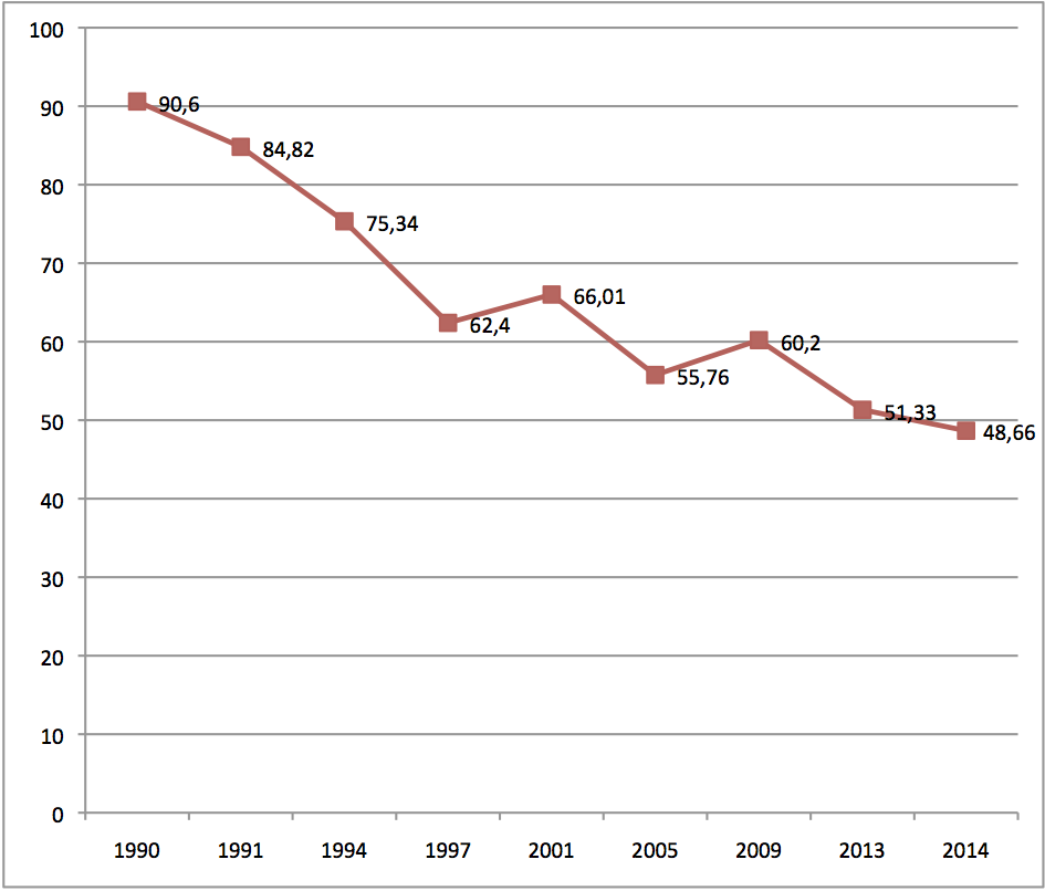 Bulgarian parliamentary elections turnout chart